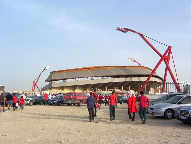 Photo of the exterior of the Bahrain National Stadium, Isa Town, Bahrain. Taken on Friday, June 3rd 2005 just prior to the start of a FIFA soccer world cup qualifying game between Bahrain and Japan. Taken by myself (Chan'ad Bahraini). More information about the photo, and more photos from this set can be found on my blog.